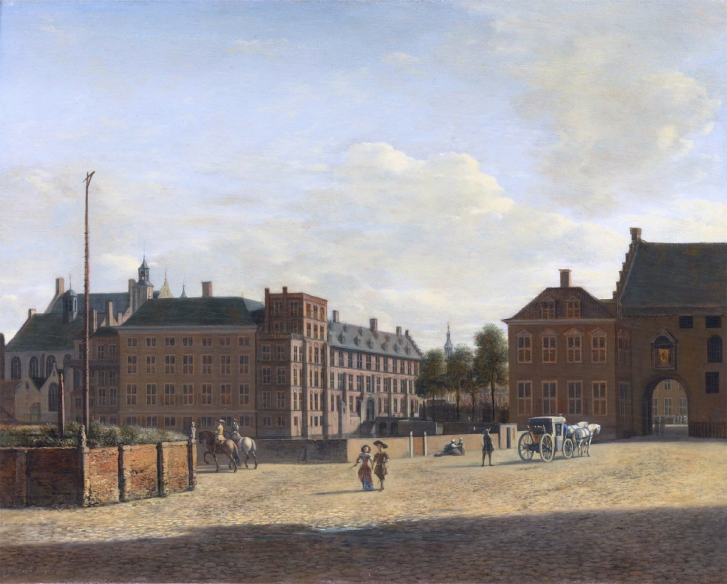 The Plaats with the Binnenhof and the Gevangenpoort, The Hague